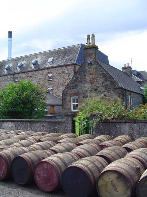 Vats of whisky at Glenmorangie distillery.